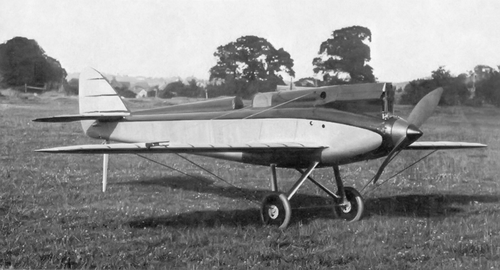 The first prototype de Havilland D.H.71 Tiger Moth G-EBQU circa 1927.